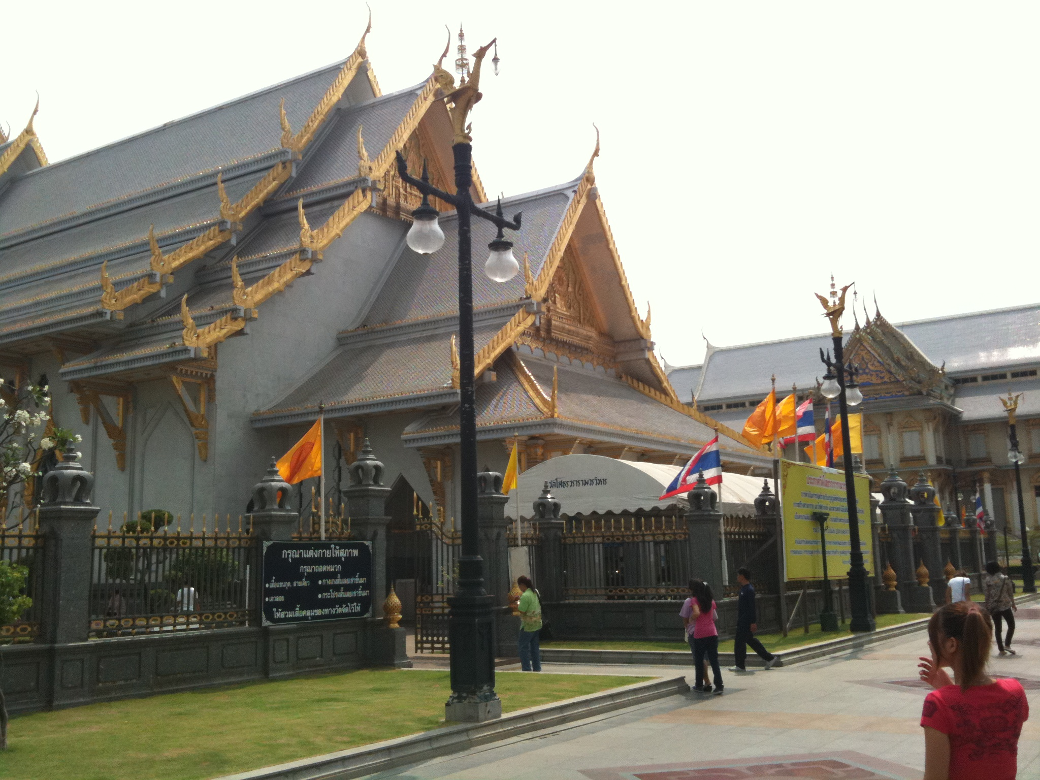 Temple Sothon Wararam Worawihan